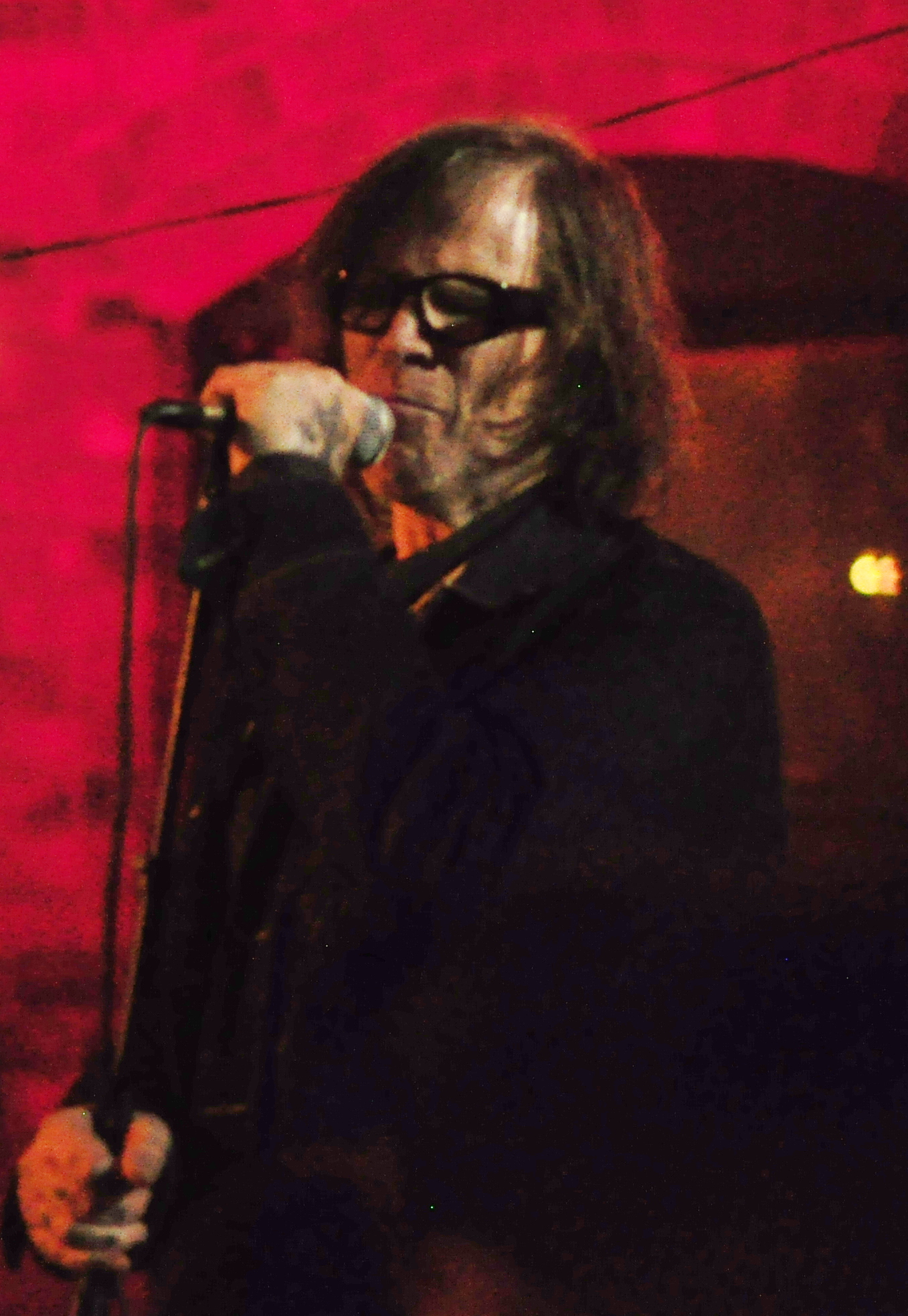 Mark Lanegan appearing at the 2015 Macefield Music Festival, Ballard, Seattle, Washington, U.S.